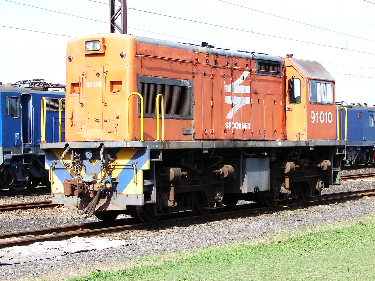 South African Class 91-000 91-010Builder's number: GE 38612Type: GE UM6BLocation: Swartkops, Port Elizabeth, Eastern Cape, on Class 36-000 Cape Gauge bogies